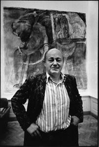 Mihail Simeonov (born 1929), Bulgarian artist working in New York